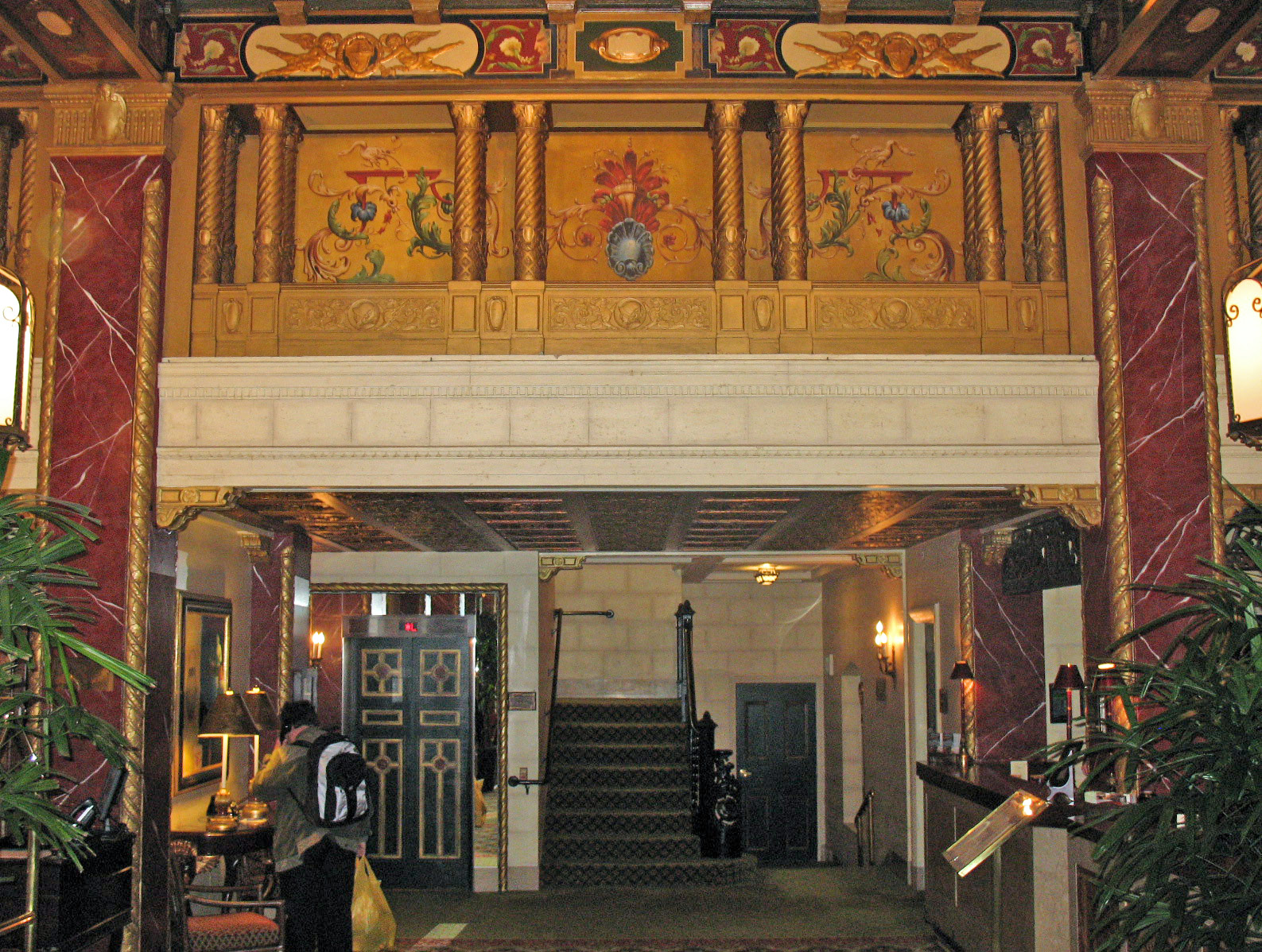 National Register of Historic Places in San Francisco, California. Lobby of the Serrano Hotel (formerly the Hotel Californian), 405 Taylor St, San Francisco, California, USA.